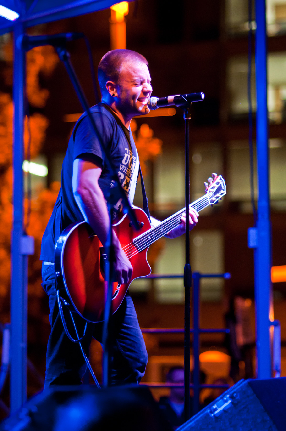 Story of the Year at UC San Diego